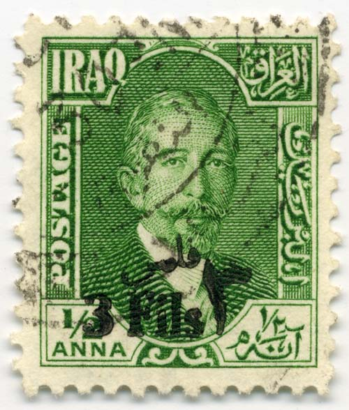 Scan of Iraq 3f overprint stamp of 1932, made by User:Stan Shebs. King Faisal I is pictured on the stamp.